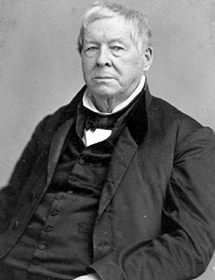 Quaker Abolitionist Thomas Garrett (1789 - 1871)